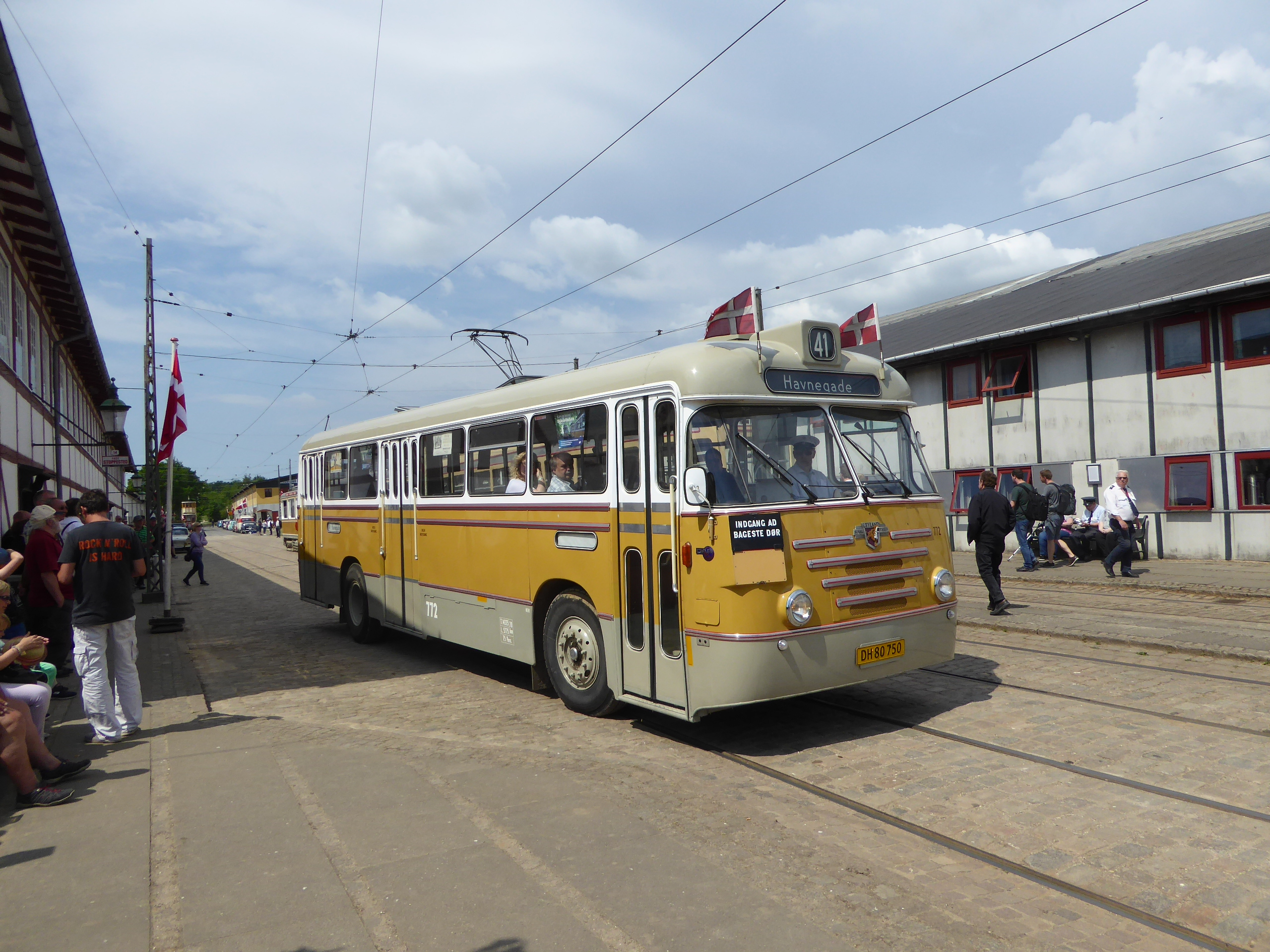 40 years anniversary of the tramway museum Sporvejsmuseet Skjoldenæsholm in Denmark. Old bus from Copenhagen, KS 772 from 1963.